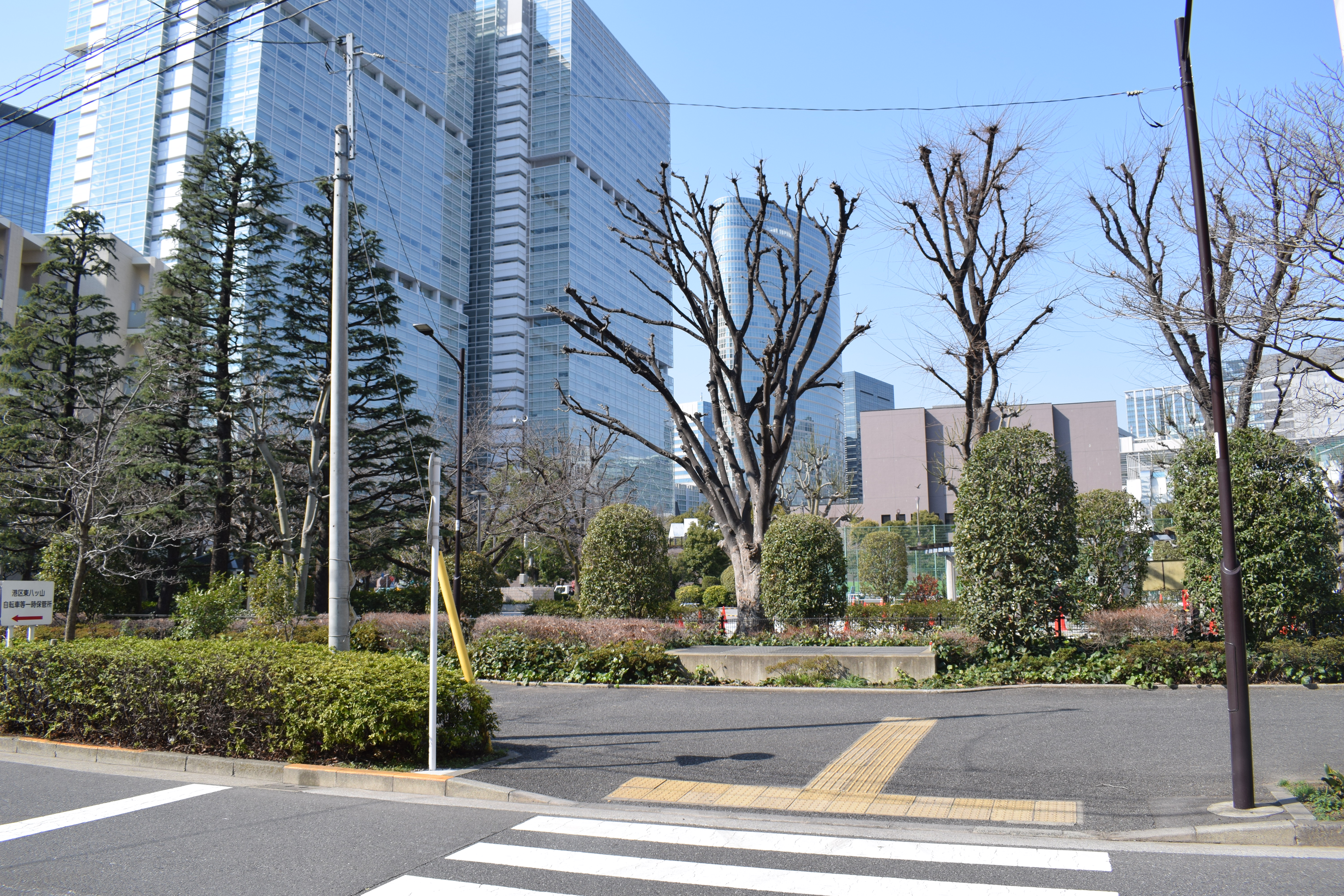 Higashi-Yatsuyama Park, located between Minato-ku and Shinagawa-ku, Tokyo.